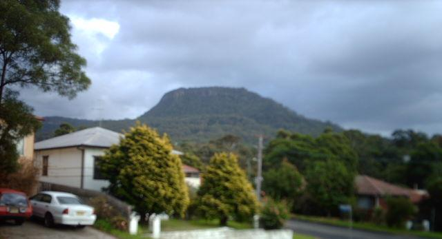 Mount Keira seen from Wollongong suburb of Keiraville on Robsons Road